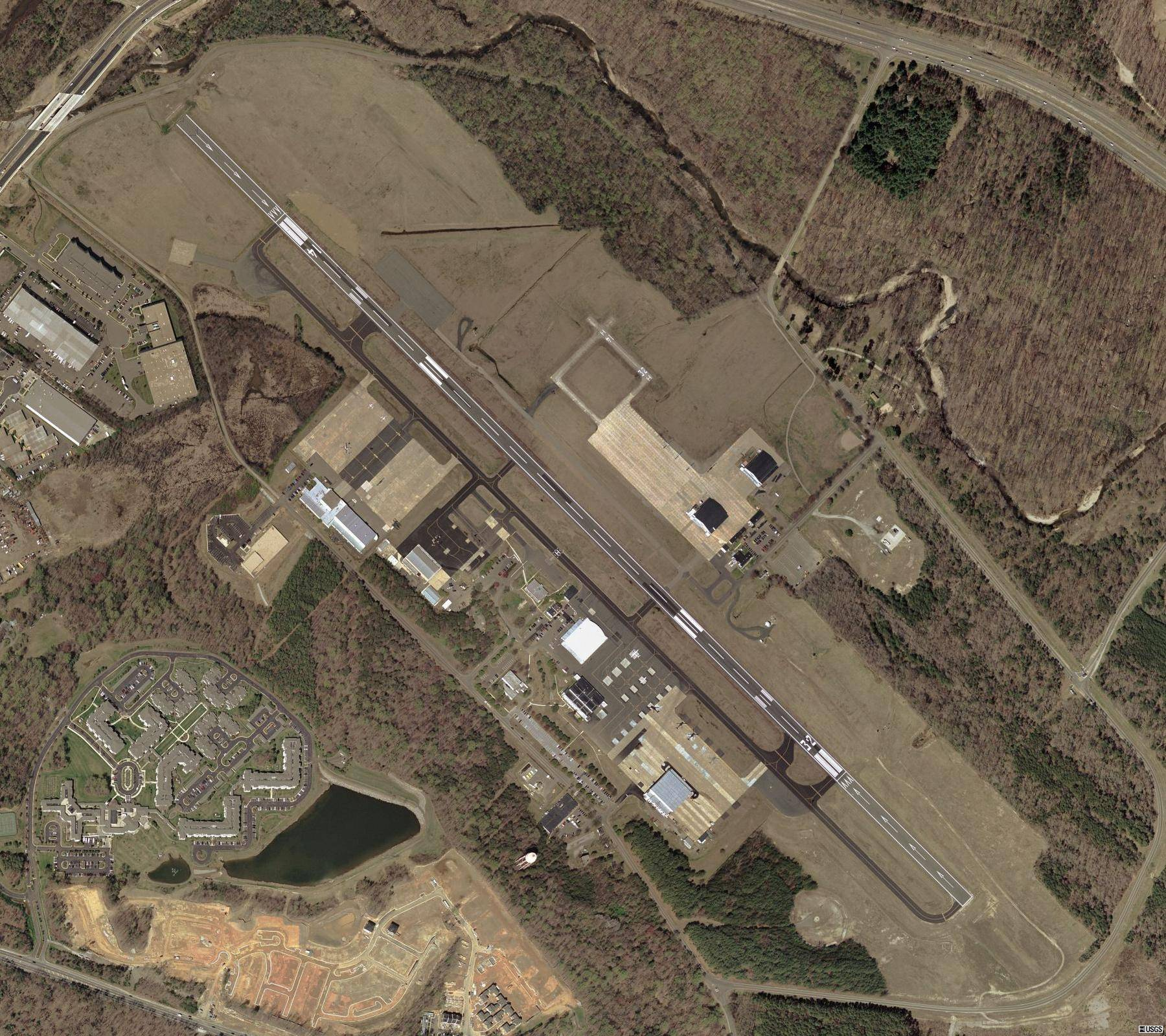 Aerial image of Davison Army Airfield at Fort Belvoir in Virginia, United States.